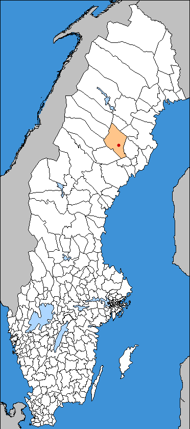 Lycksele Municipality and its seat Lycksele in Sweden